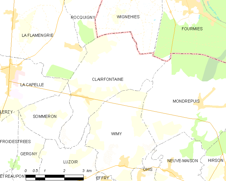 Map of French commune: Clairfontaine Map commune FR insee code 02197.png